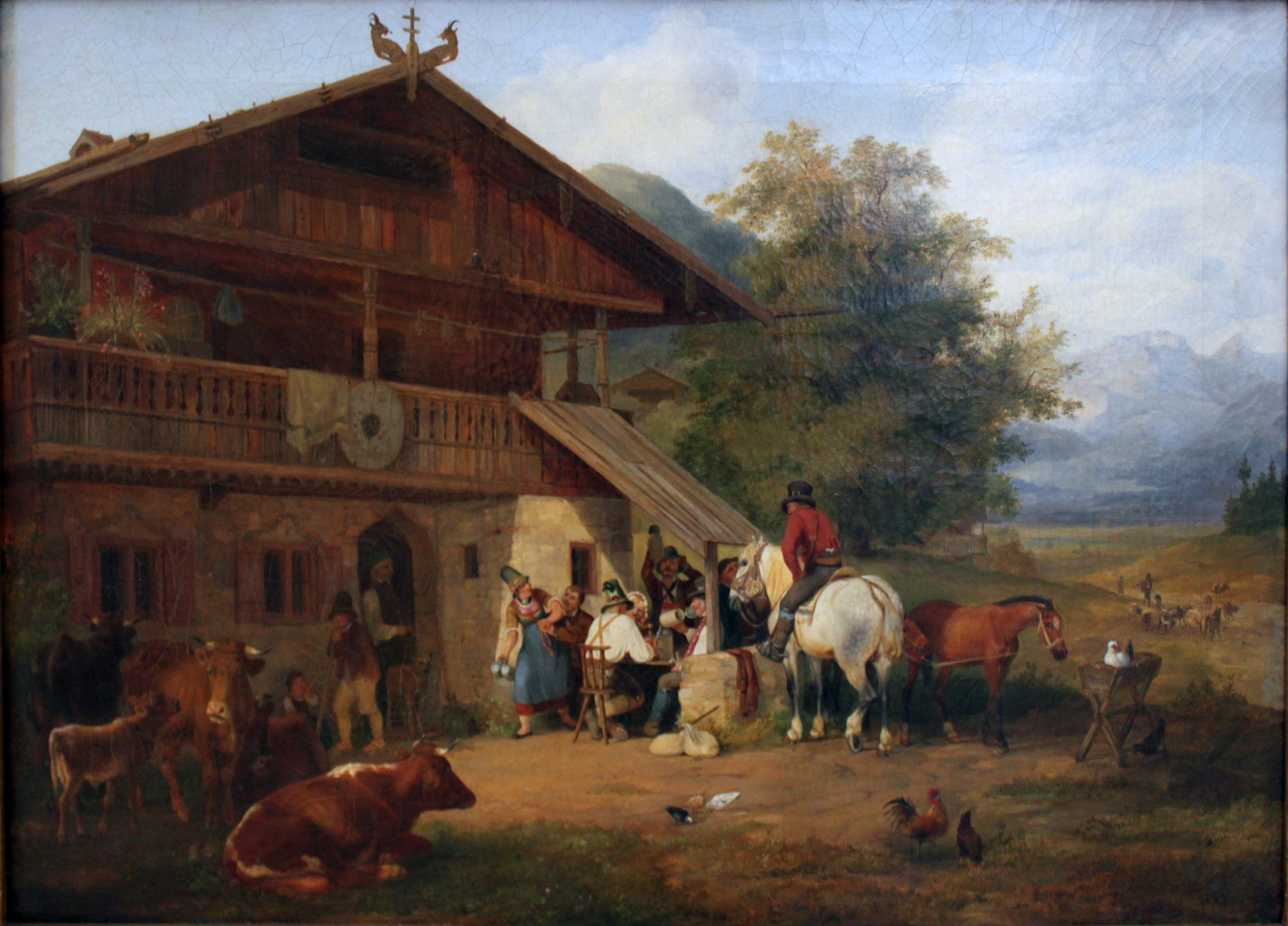 Happy homecoming